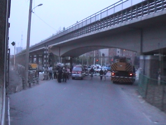 Animation The railway crossing at Shuangqing road, Beijing, China.